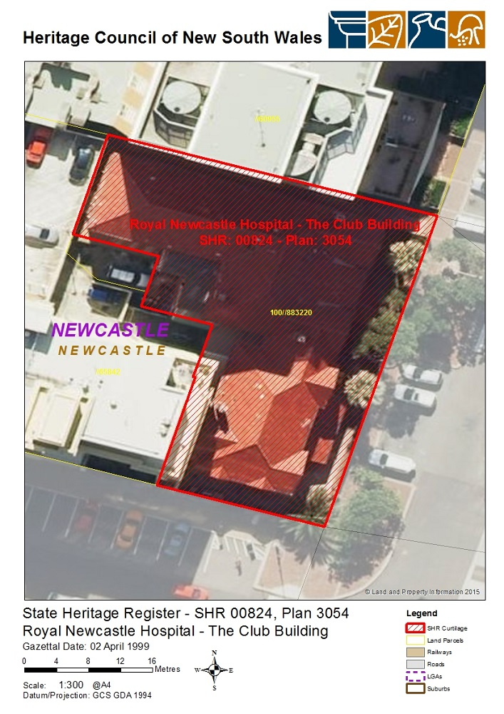 Old Newcastle Club Building: SHR Plan No 3054